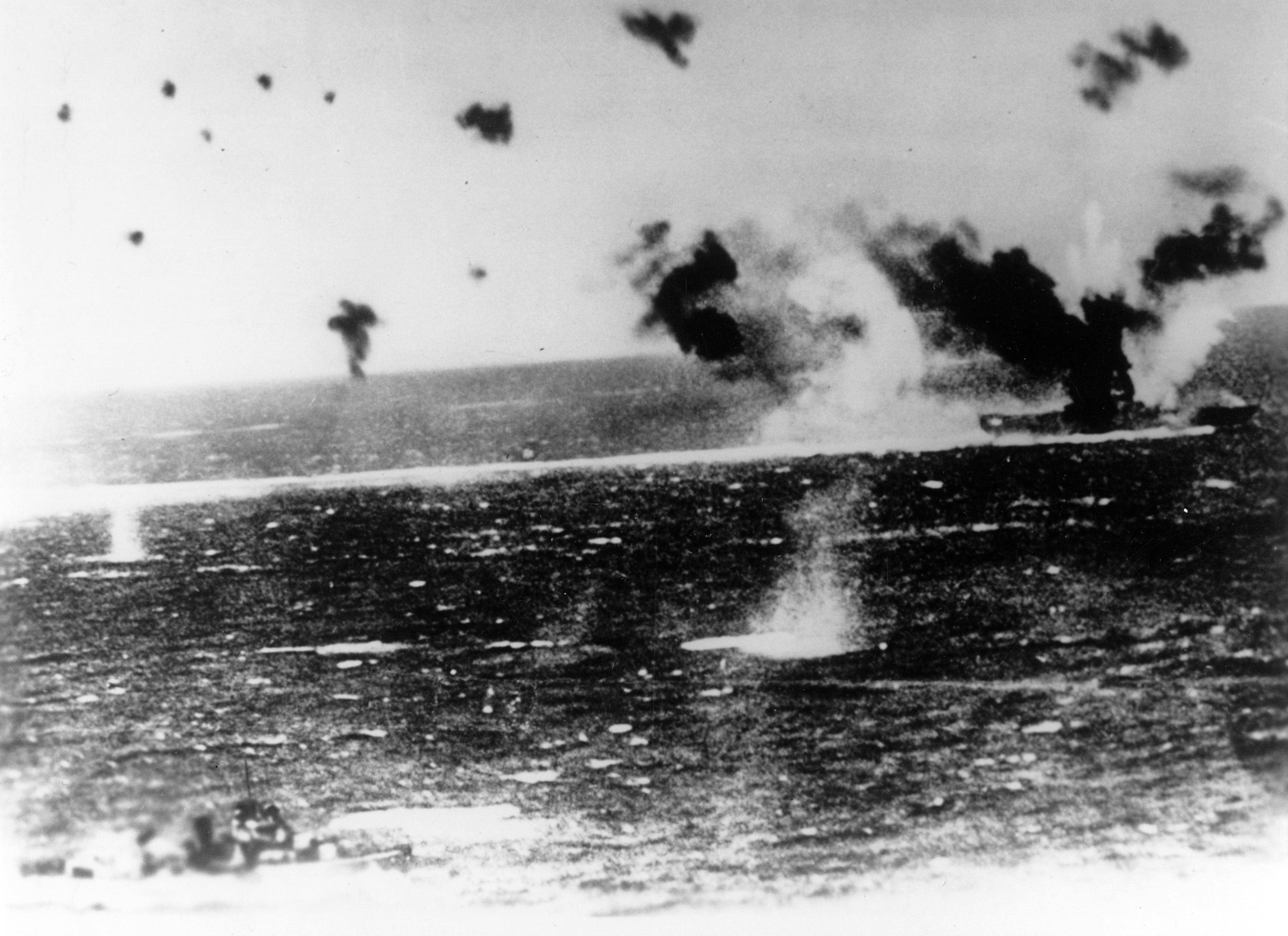 The U.S. Navy aircraft carrier USS Lexington (CV-2) under air attack on 8 May 1942 during the Battle of the Coral Sea, as photographed from a Japanese plane. Heavy black smoke from her stack and white smoke from her bow indicate that the view was taken just after those areas were hit by bombs. The destroyer in the lower left appears to be USS Phelps (DD-360).